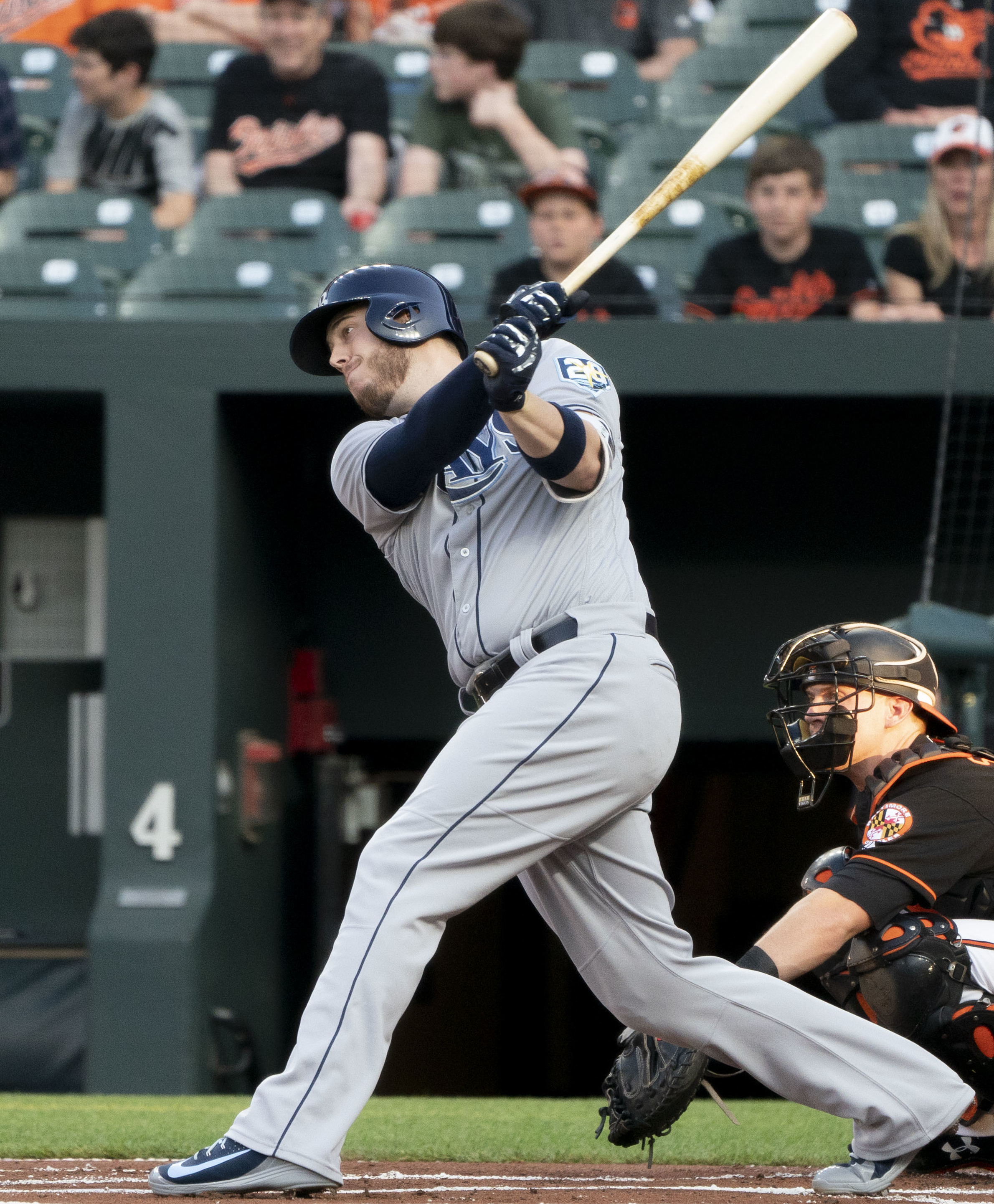 Rays at Orioles 5/11/18